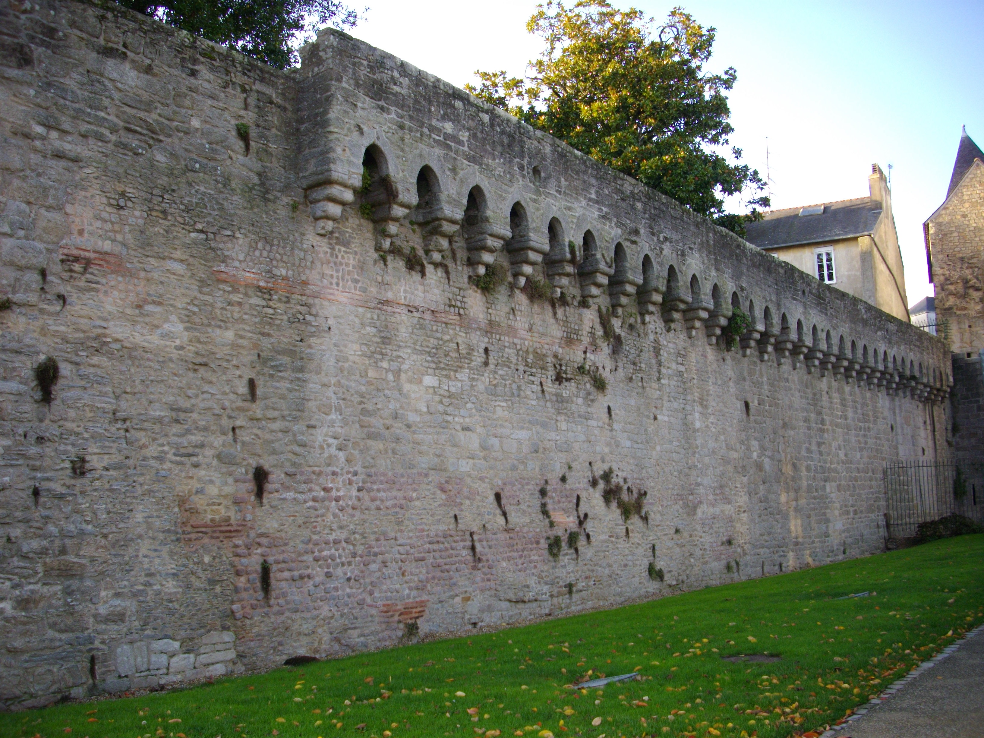 Gallo-roman part of Vannes' rampart (France)